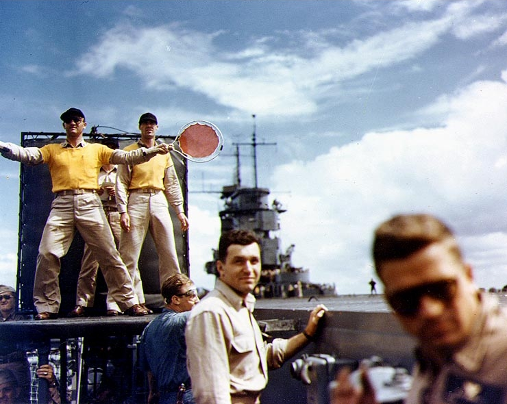 U.S. Navy Lieutenant David McCampbell, Landing Signal Officer, bringing in planes aboard the aircraft carrier USS Wasp (CV-7), circa late 1941 or early 1942. Behind him is the Assistant Landing Signal Officer, Ensign George E. "Doc" Savage. In the catwalk in the lower center are Len Ford (enlisted man) and Lieutenant Hawley Russell.